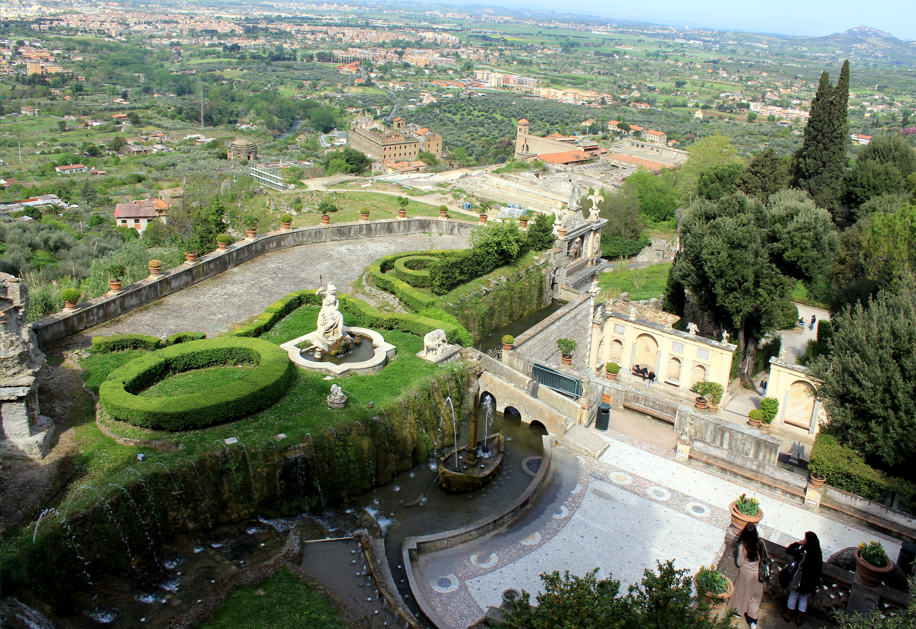 Park of Villa d'Este with fountain Rometta and view into countyard around town Tivoli, Italy